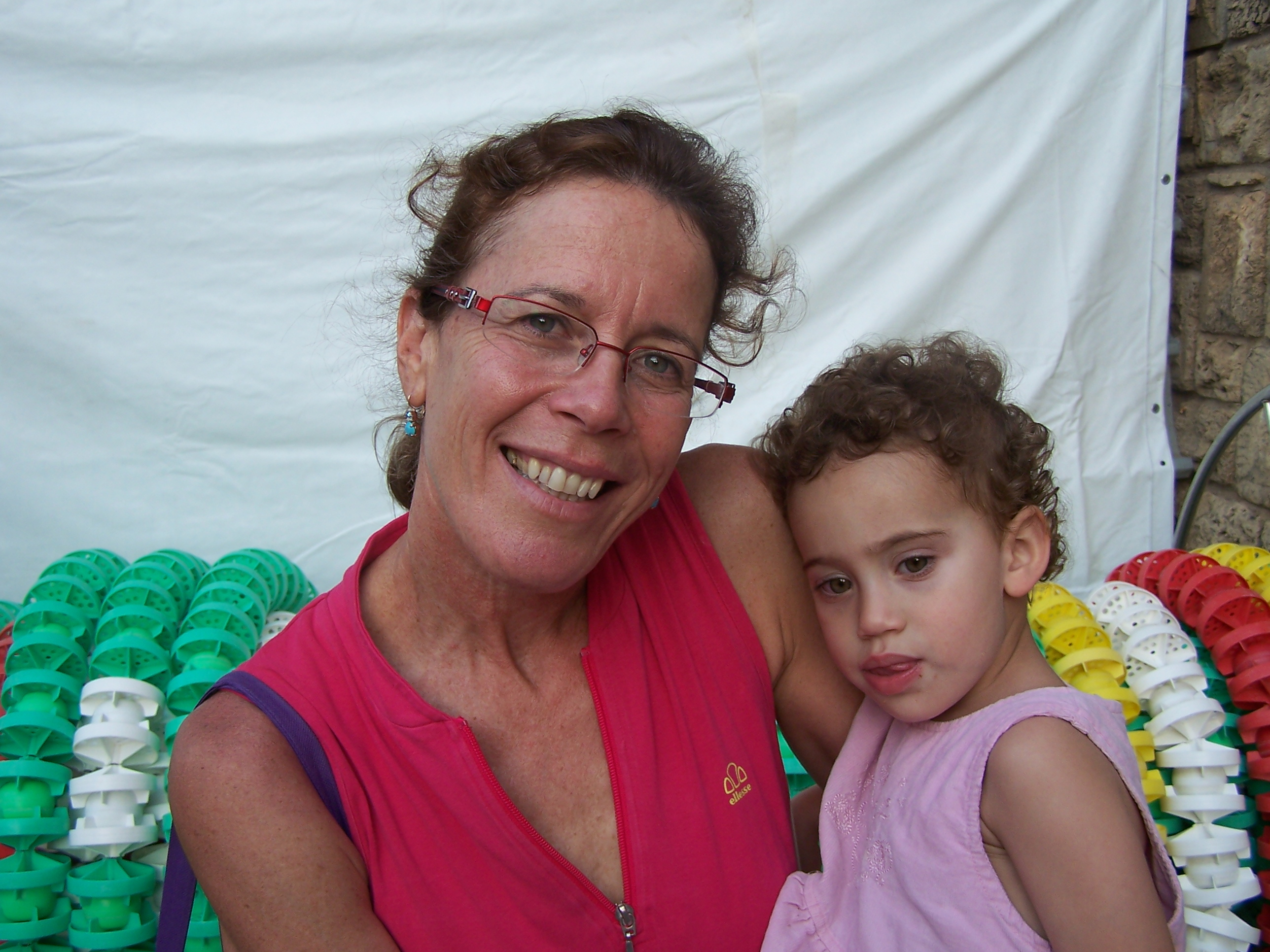 Lior Birkan in the Israelian Championships in swimming 2010